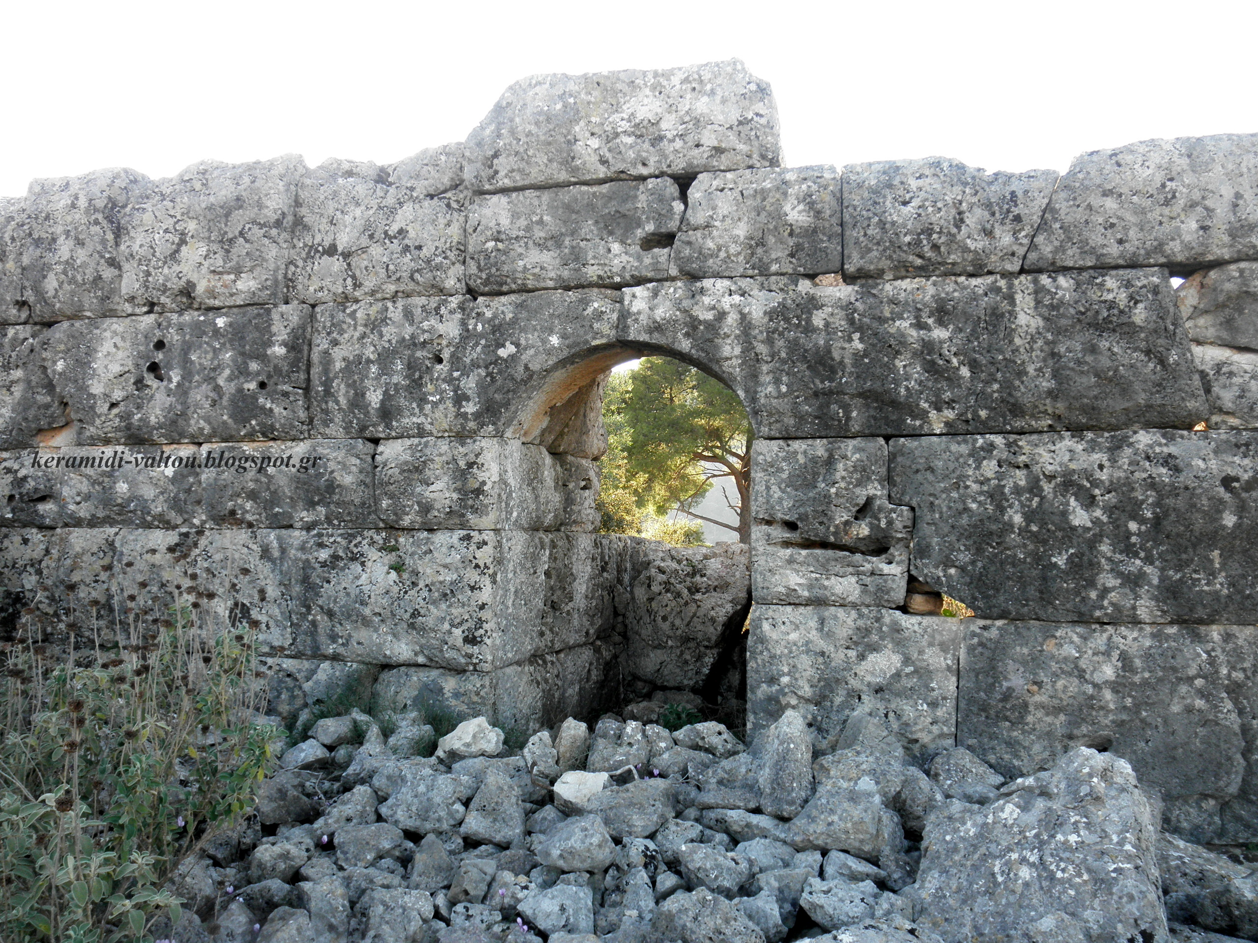 Ancient Limnaia - Amfilochia Aitoloakarnanias